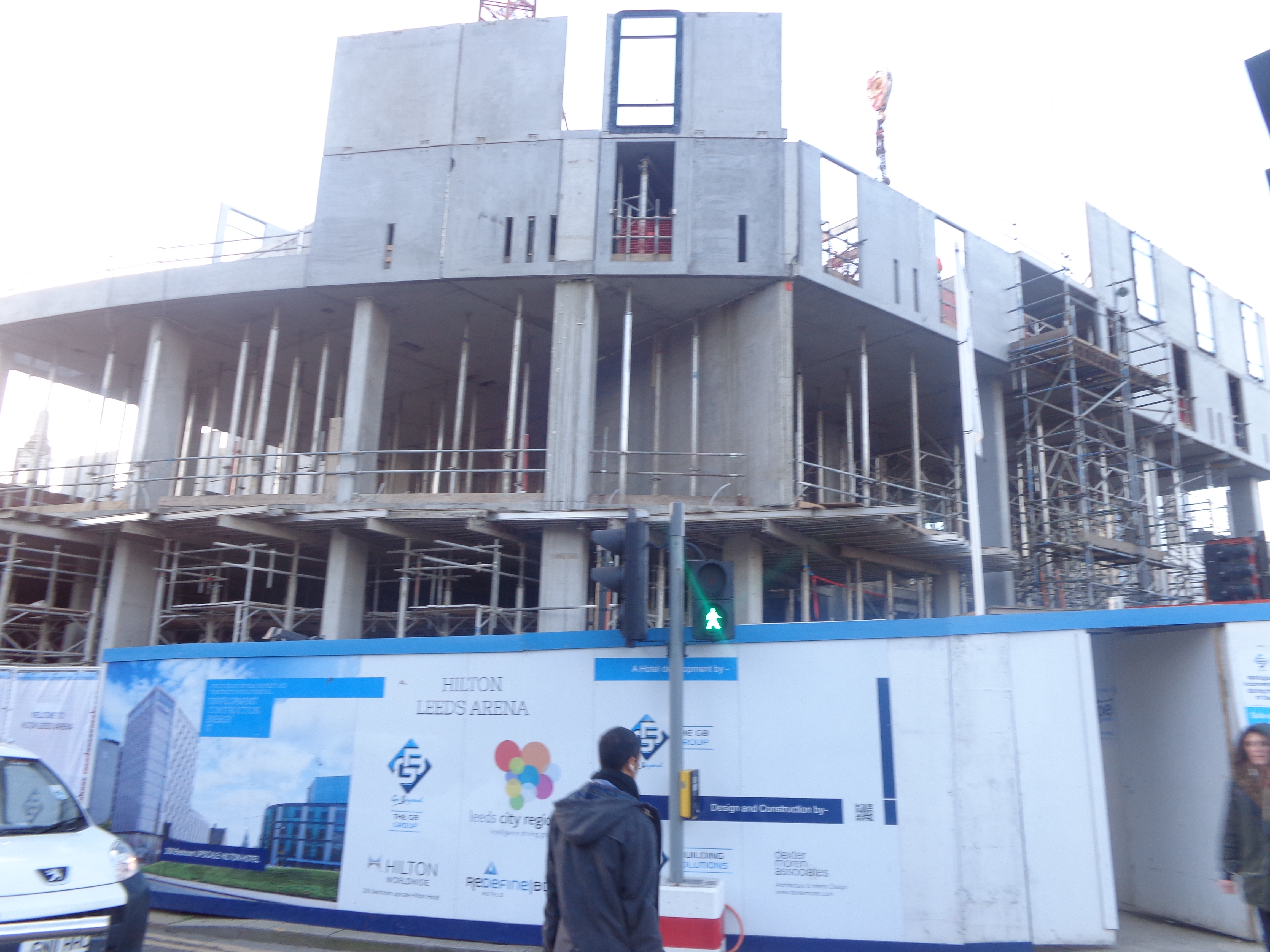 Construction of the Hilton Leeds Arena, the second in the city centre after the earlier one by the station; there was also previously one at Garforth. Taken on the afternoon of Friday the 5th of December 2014.